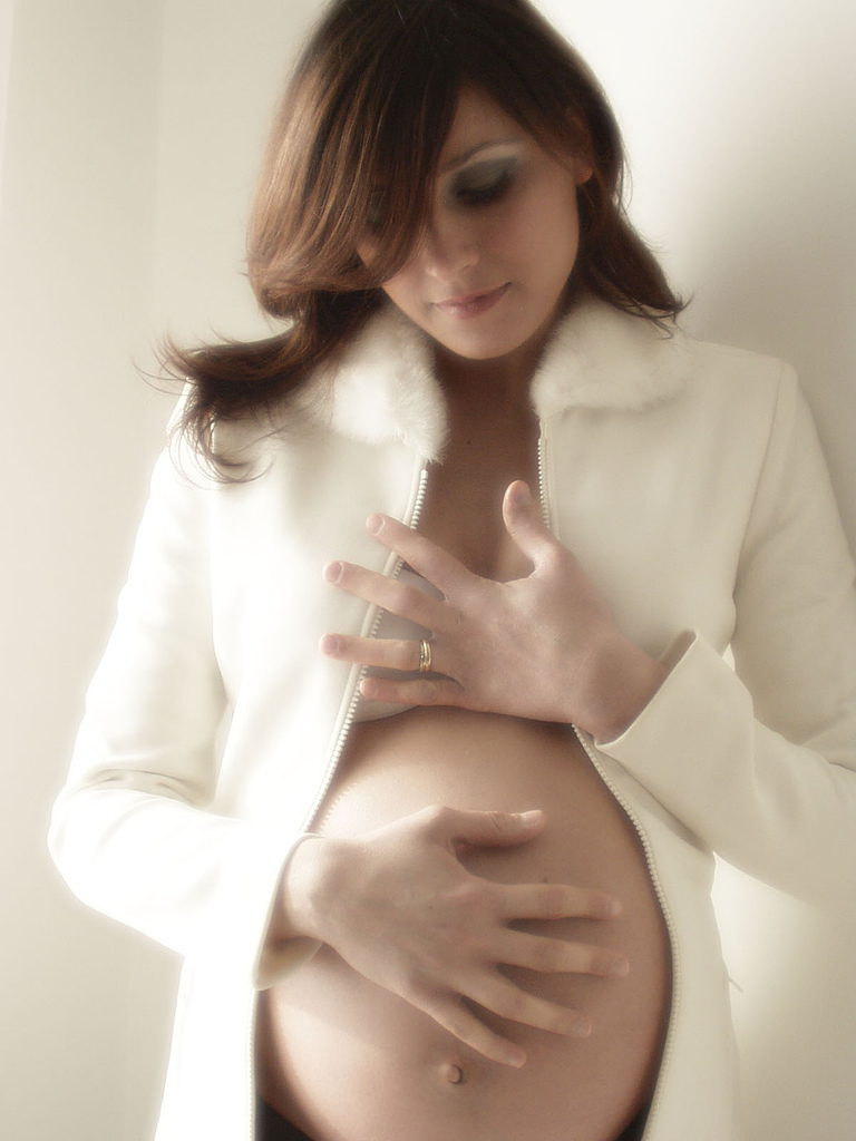 Together we always pull through.